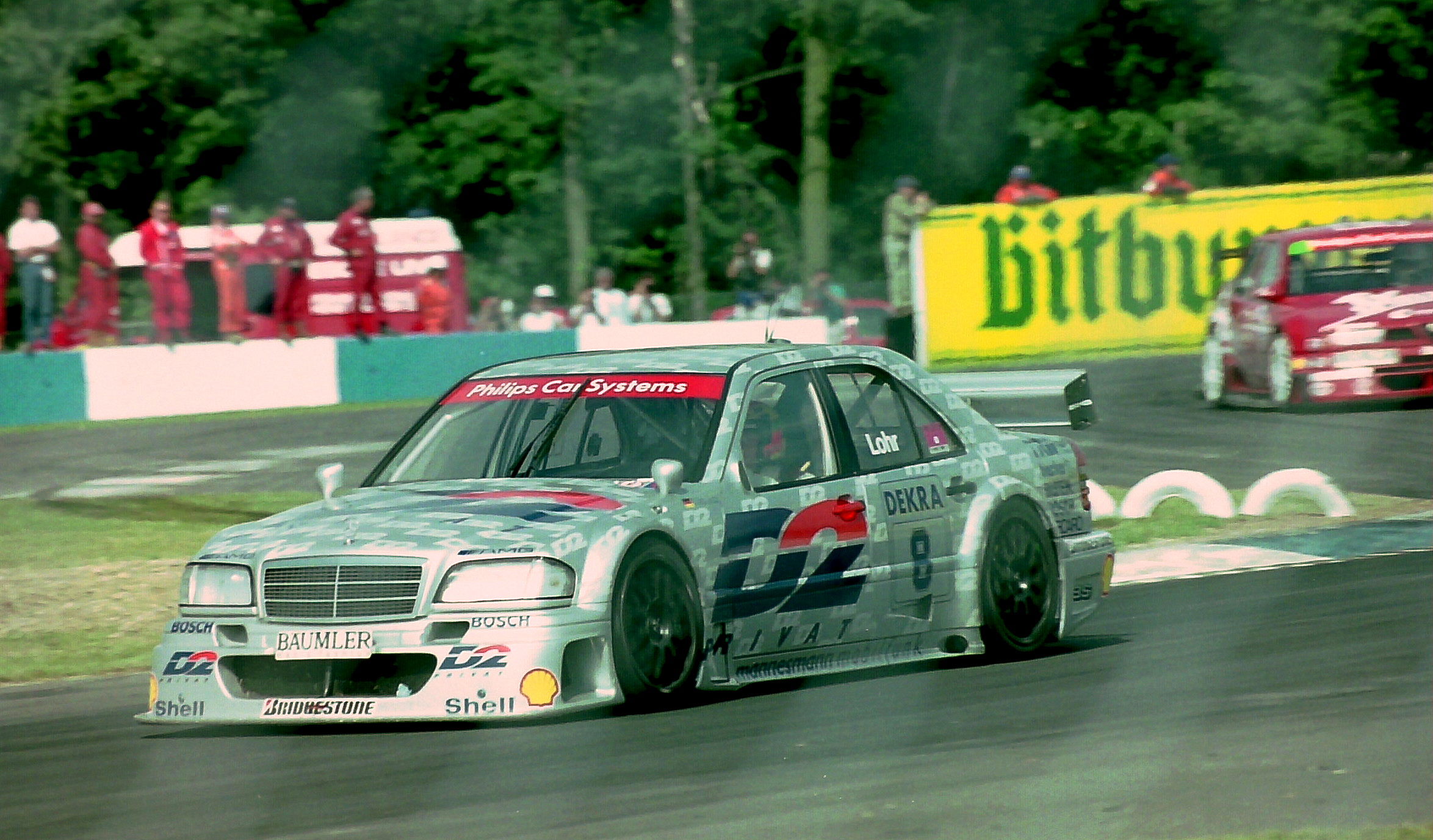 Ellen Lohr - AMG-Mercedes D2 Privat Team - AMG Mercedes exits The Esses